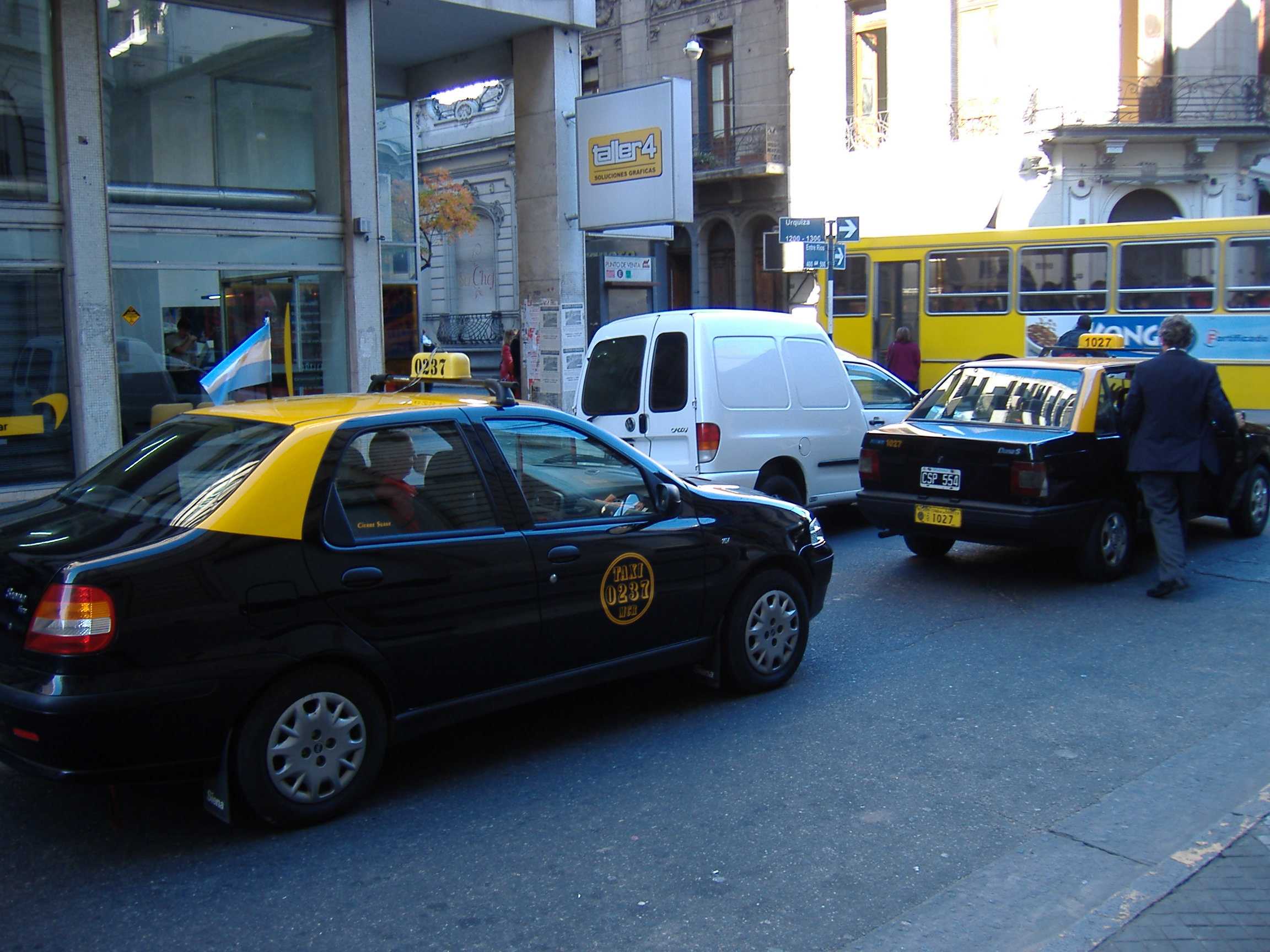 Taxis in a street of Rosario, Argentina.